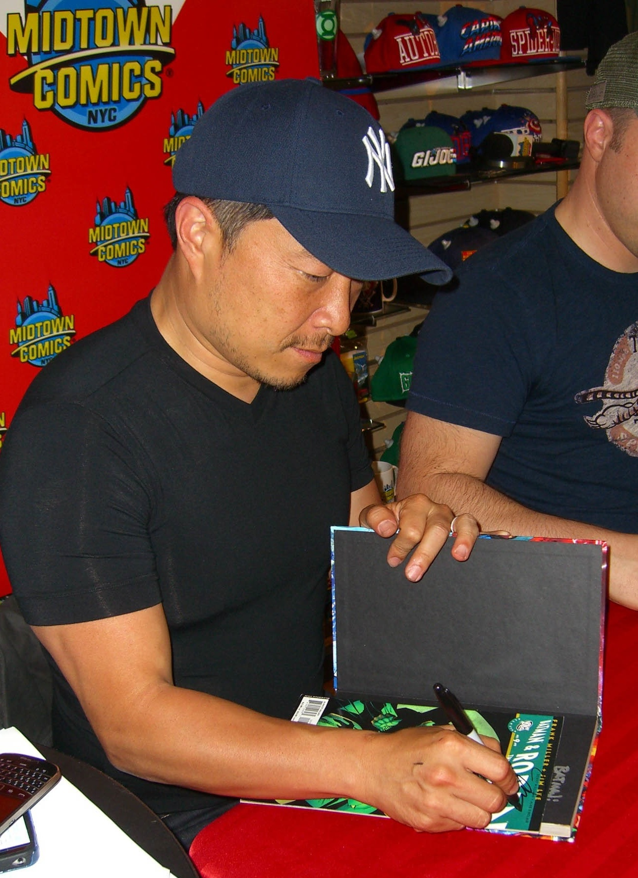 Comic book artist Jim Lee at a May 11, 2012 signing at Midtown Comics Downtown in Lower Manhattan for Justice League Vol. 1: Origin, the hardcover collection of the first six-issue story arc of Justice League volume 2, the monthly series whose debut in September 2011 initiated The New 52, the company-wide relaunch of all of DC Comics' superhero titles. In the photo, Lee is signing a copy of All Star Batman and Robin the Boy Wonder #9 (April 2008). This photo was created by Luigi Novi. It is not in the public domain, and use of this file outside of the licensing terms is a copyright violation.